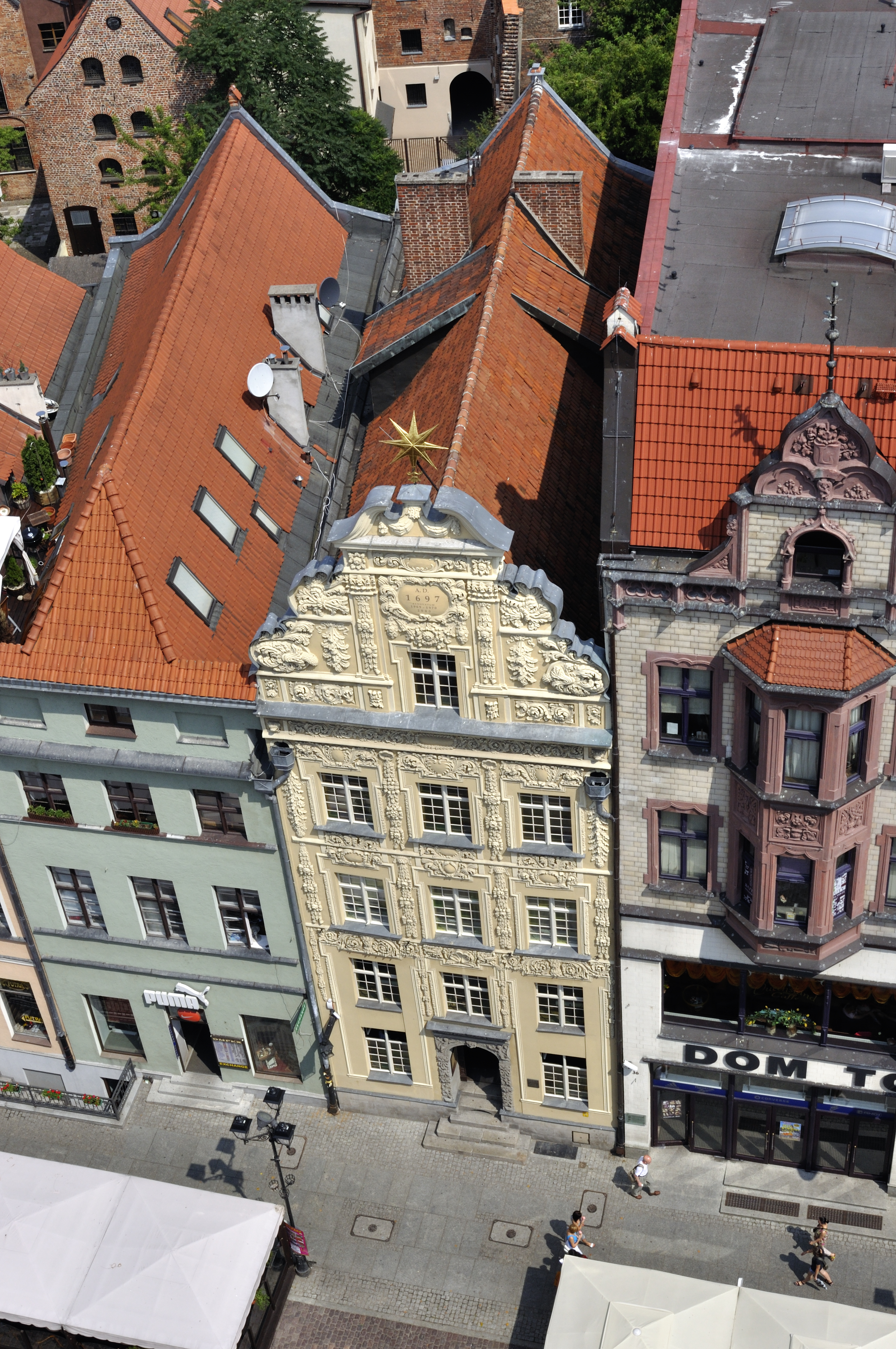 Picture taken in Toruń after Wikimania 2010 conference.